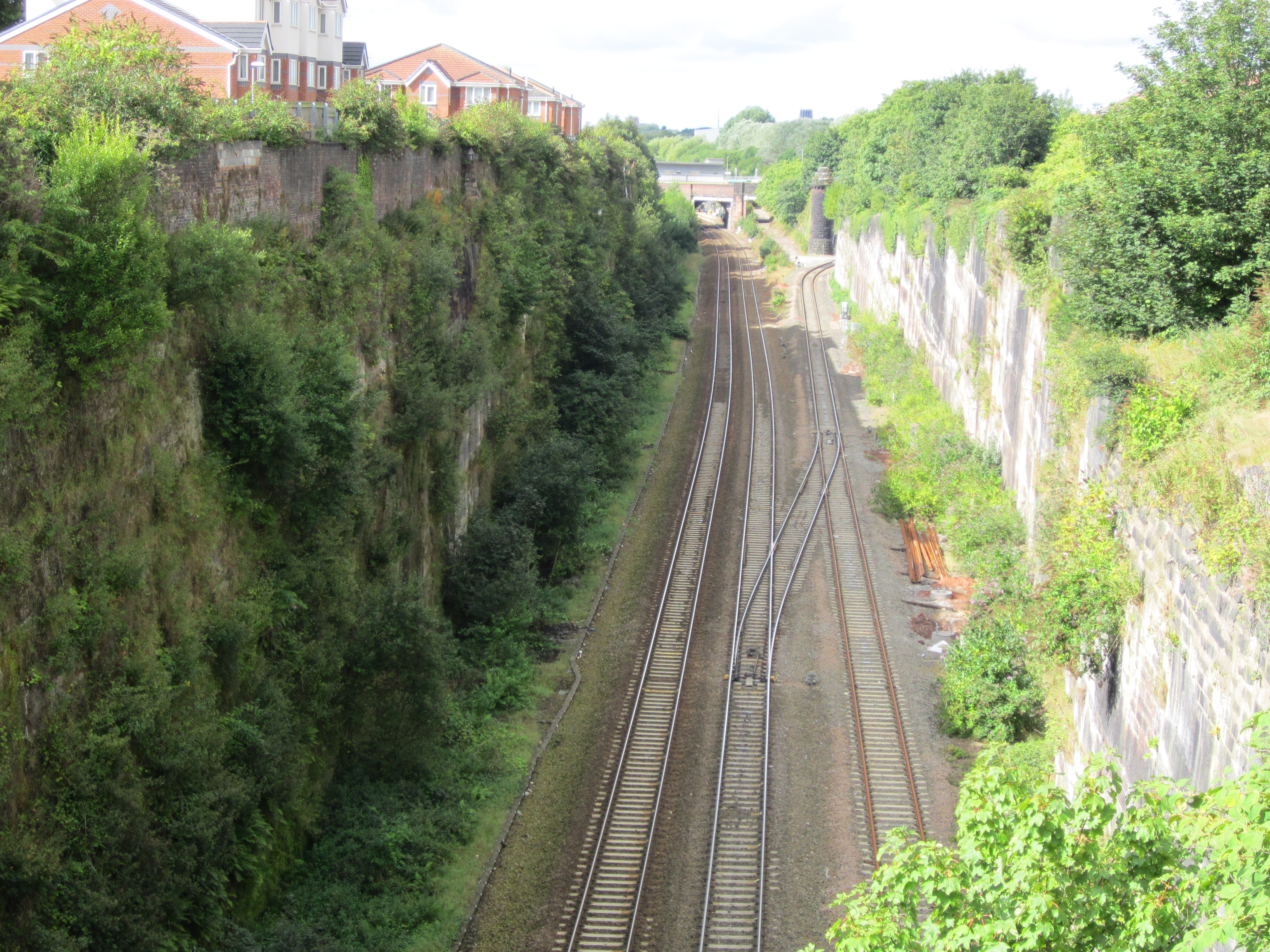 Looking west along the Olive Mount railway cutting from the Mill Lane road bridge, Liverpool, England.